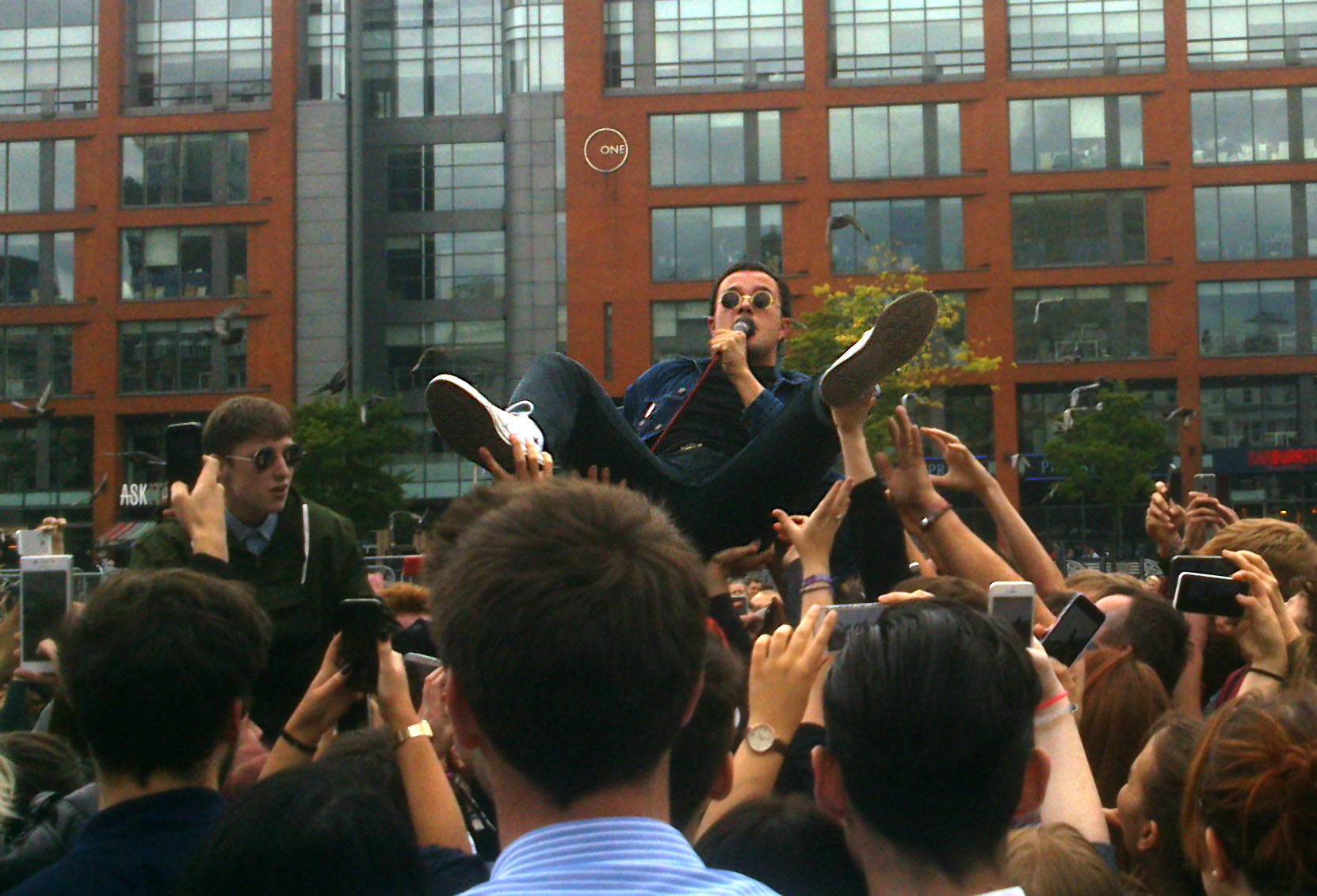 Isaac Holman of Slaves crowd-surfing at an outdoor performance in Manchester's Piccadilly Gardens, August 2015